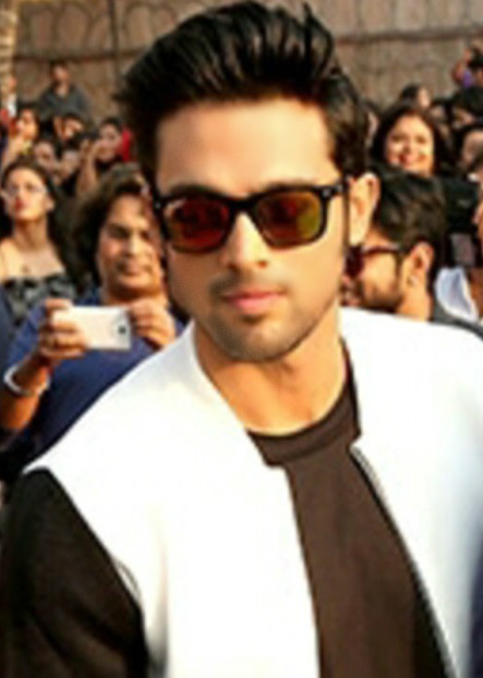 Parth Samthaan at Mahurat of the film GOOGLY Ho Gayi